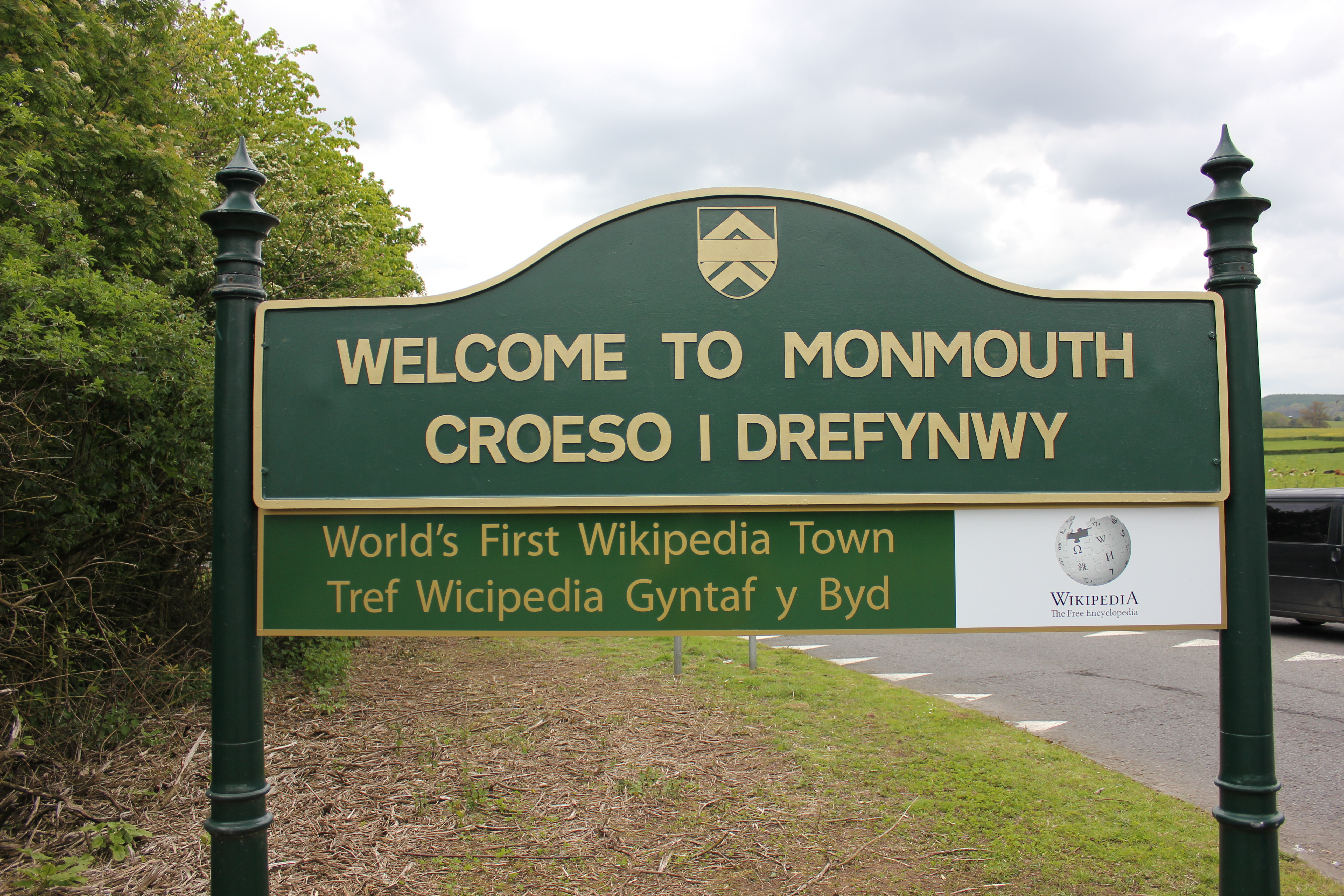 Town entrance sign for Monmouth, World's first Wikipedia town